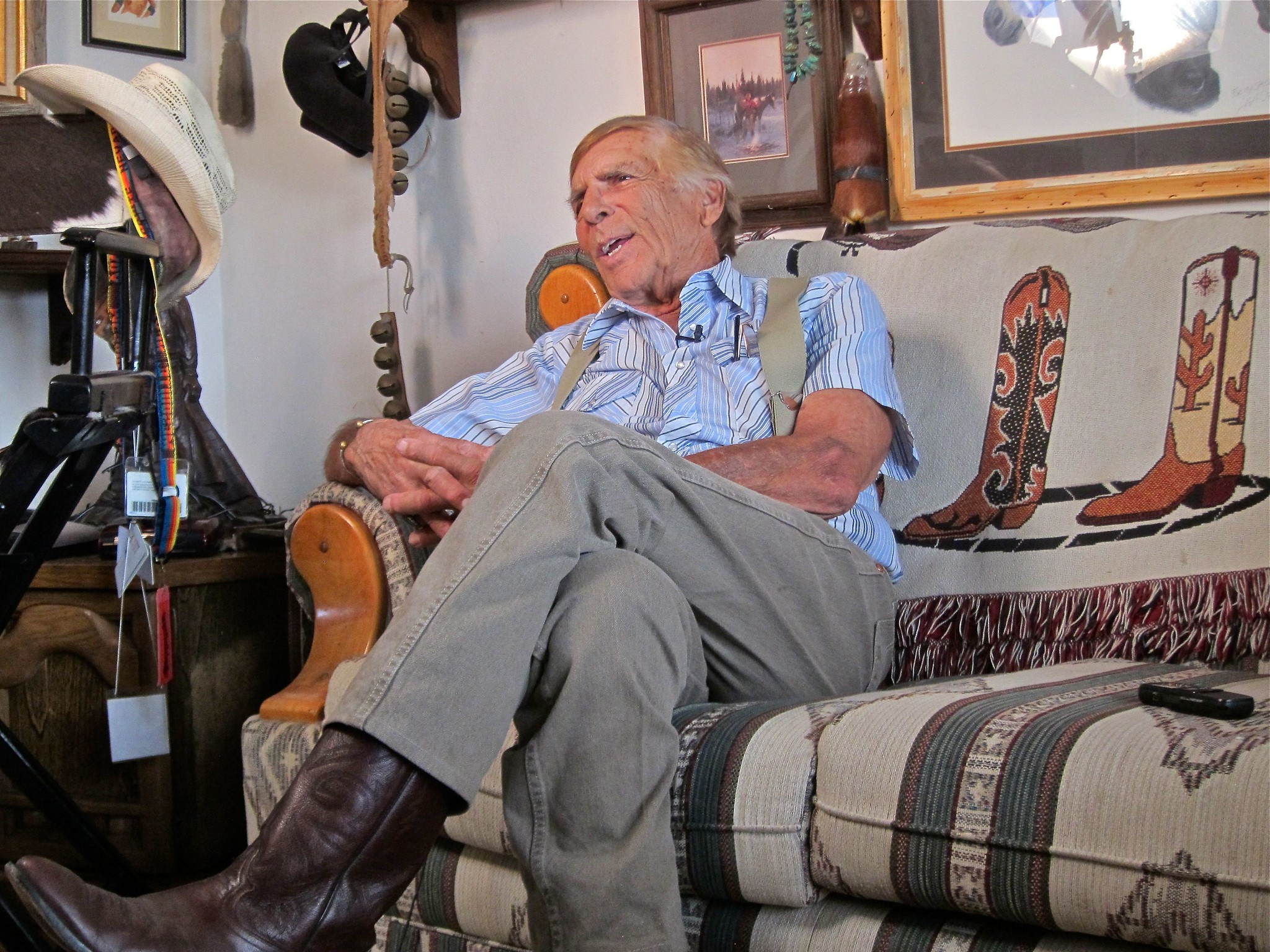 Stuntman John "Bud" Cardos at his home in Los Angeles.